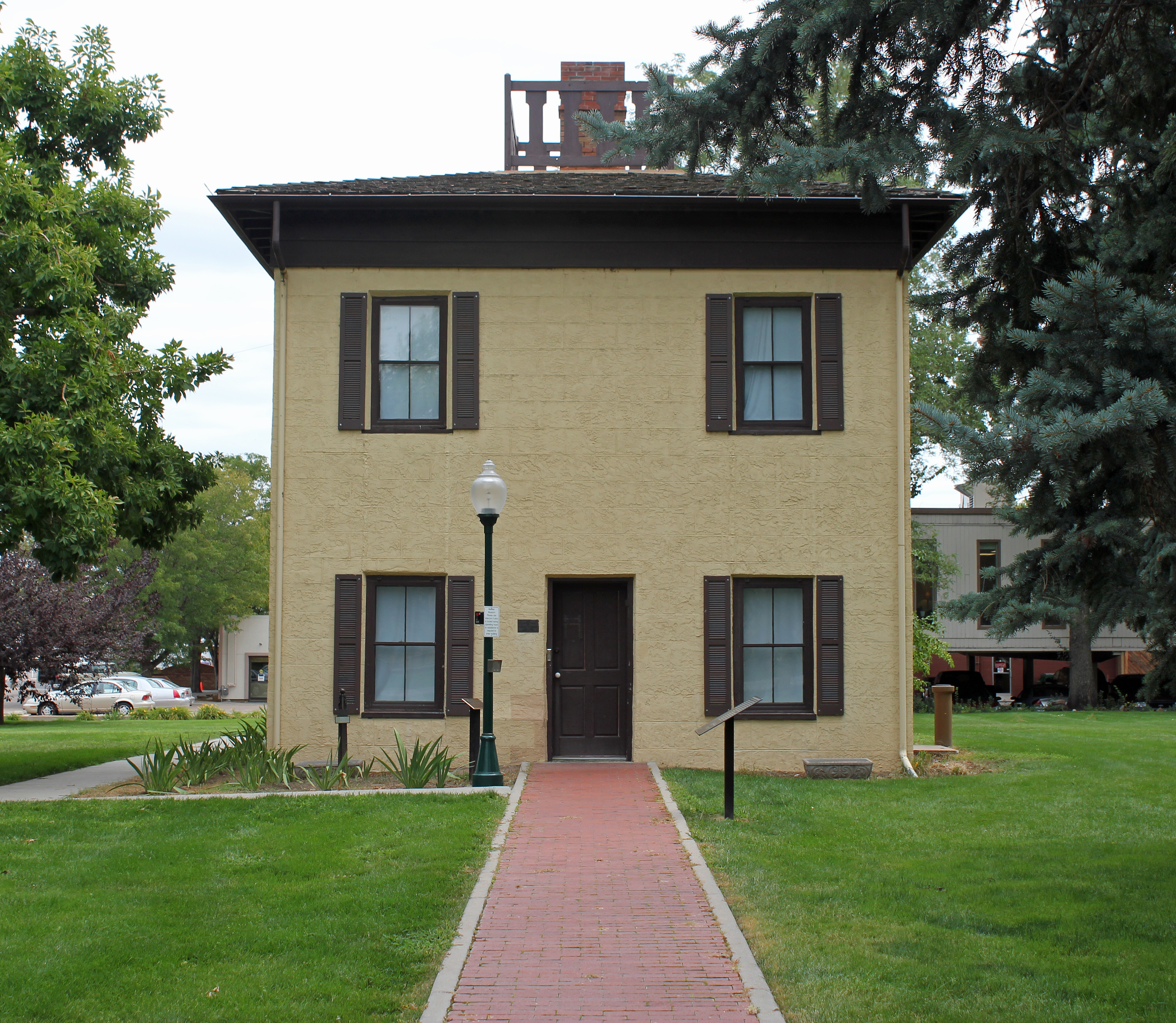 The Meeker Home Museum (Meeker House), located at 1324 9th Avenue in Greeley, Colorado. The property is listed on the National Register of Historic Places.